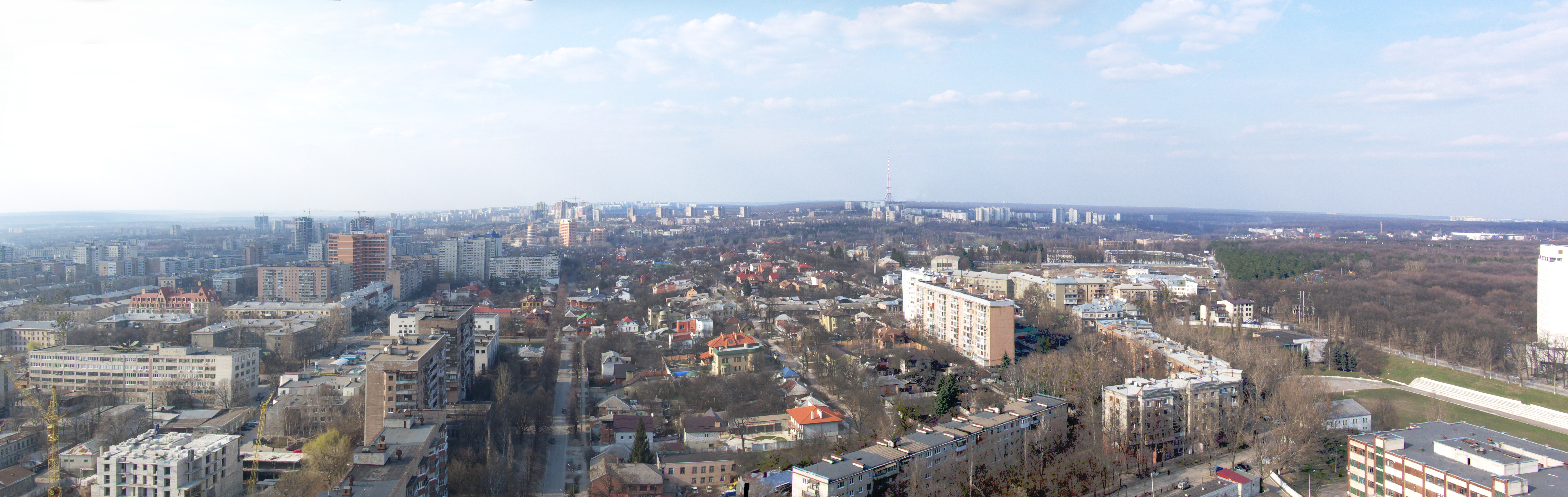 Lenin Avenue and Bakulin Street. A panoramic sight of Shatilovka and Pavlovo Pole in Kharkov. 2008